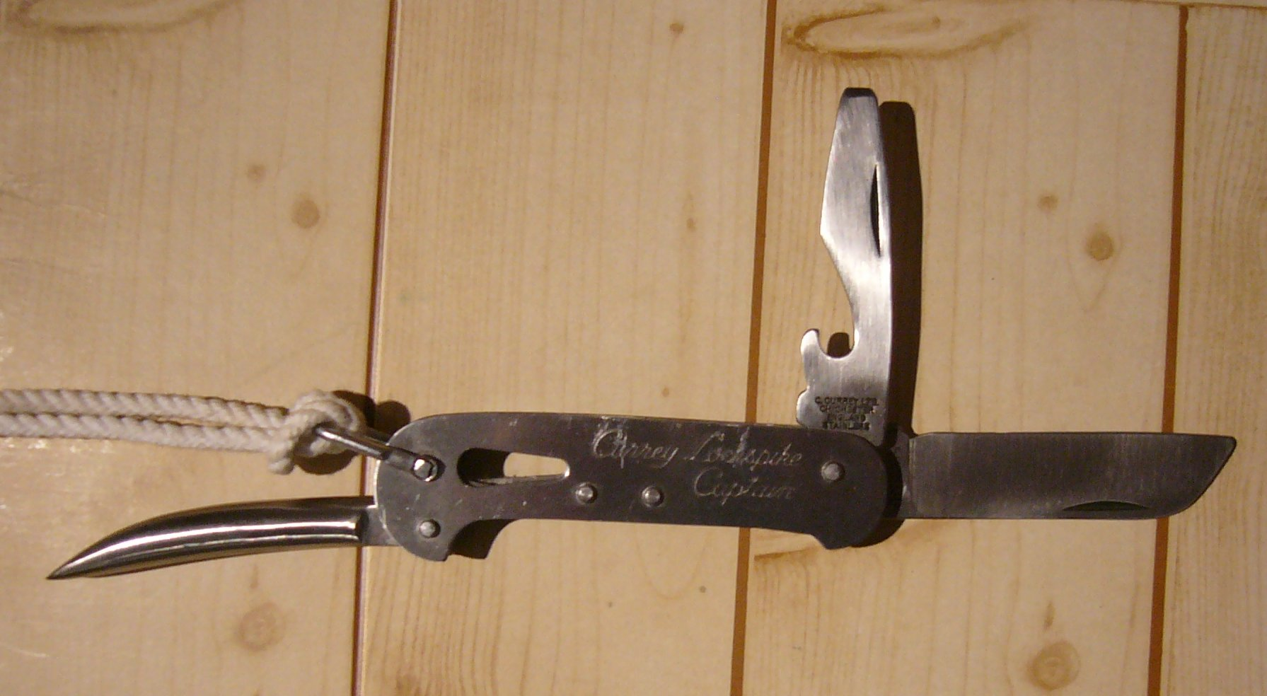 Currey Lockspike, a sailor's tool.